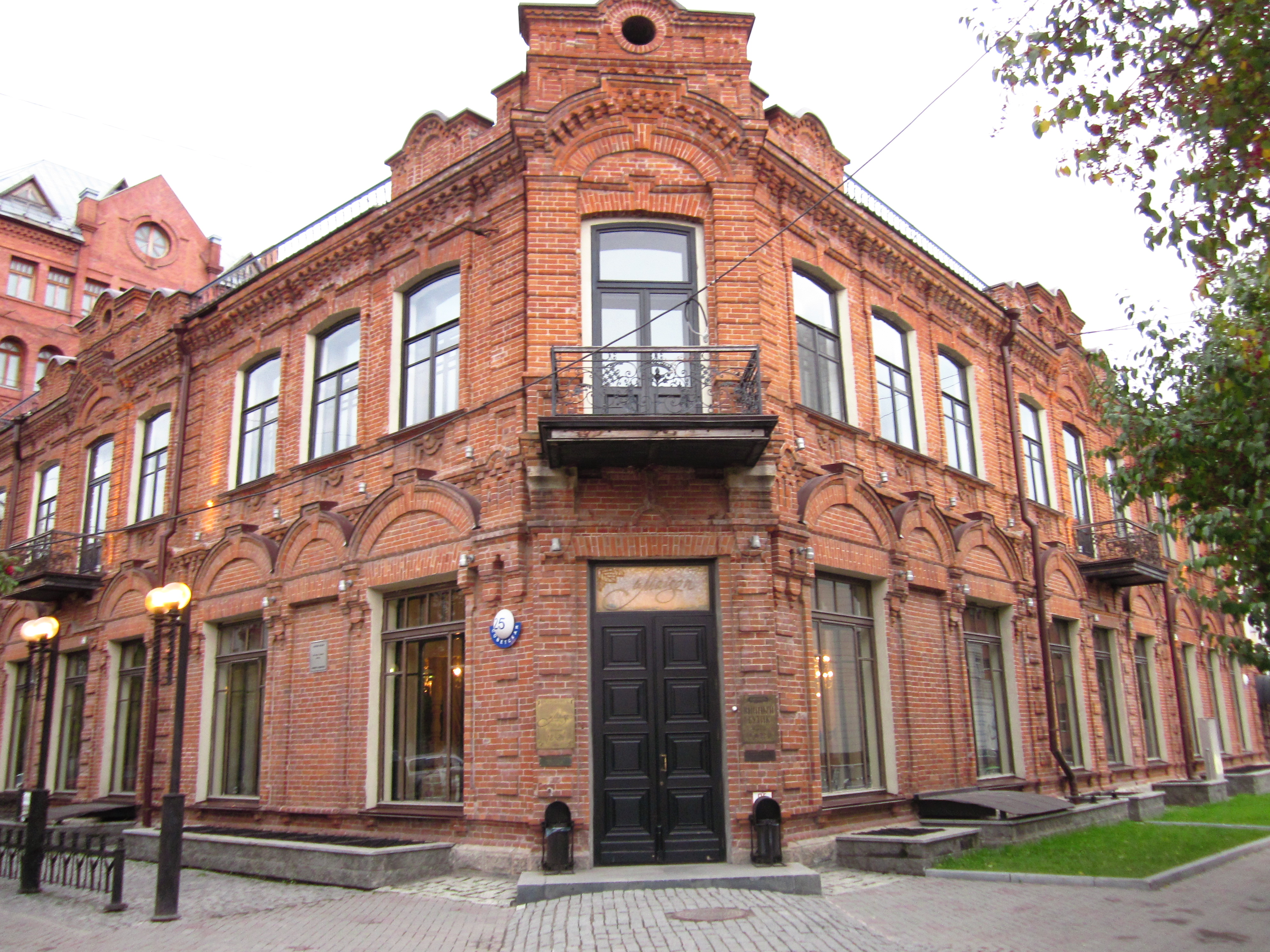 Kryukov House in Novosibirsk, Russia. The building is located in Sovetskaya Street, 25. It was built in 1908 on the initiative of the merchant Z. G. Kryukov.